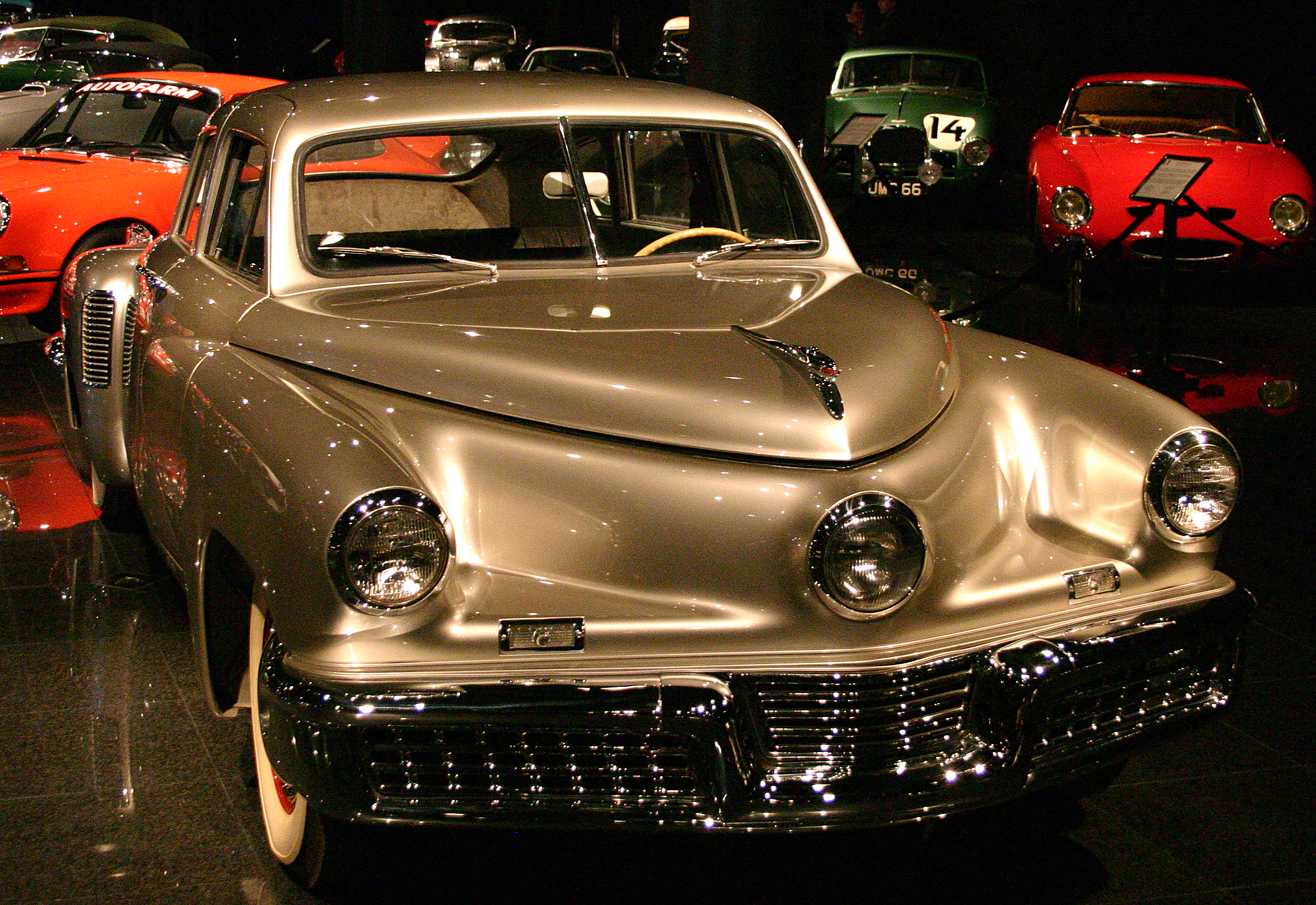 A picture of a Tucker Torpedo taken at the Blackhawk Museum.